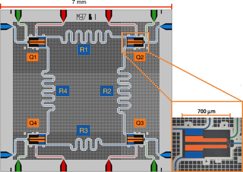 Four superconducting qubits, four coplanar waveguide resonators, and input, output, flux, and microwave drive lines. From the paper "Digital Quantum Simulation of Spin Models with Circuit Quantum Electrodynamics", Physical Review X 5, 021027 (2015), by Y. Salathé, M. Mondal, M. Oppliger, J. Heinsoo, P. Kurpiers, A. Potočnik, A. Mezzacapo, U. Las Heras, L. Lamata, E. Solano, S. Filipp, and A. Wallraff.